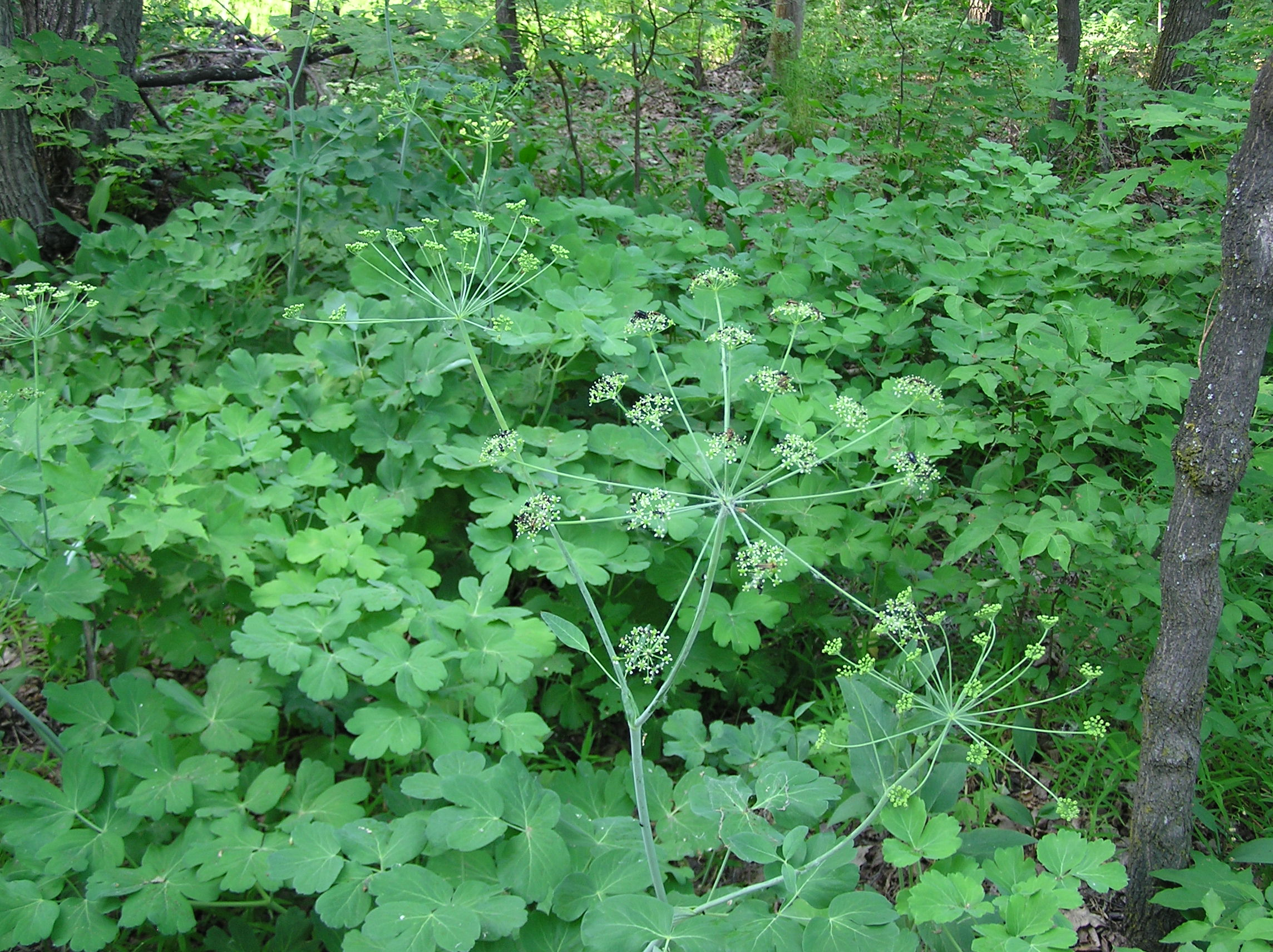 Laser trilobum (L.) Borkh. Habitat: upland deciduous forest. Vicinity of Saratov city, Russia.